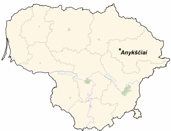 Anykščiai on the map of Lithuania